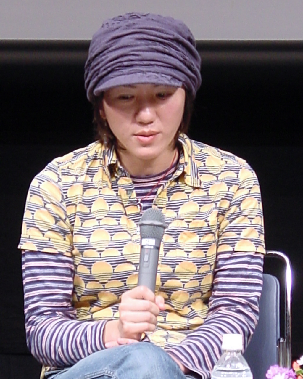 Japanese film director Naoko Ogigami at the 15th Tama Cinema Forum, held in Tama City, Tokyo